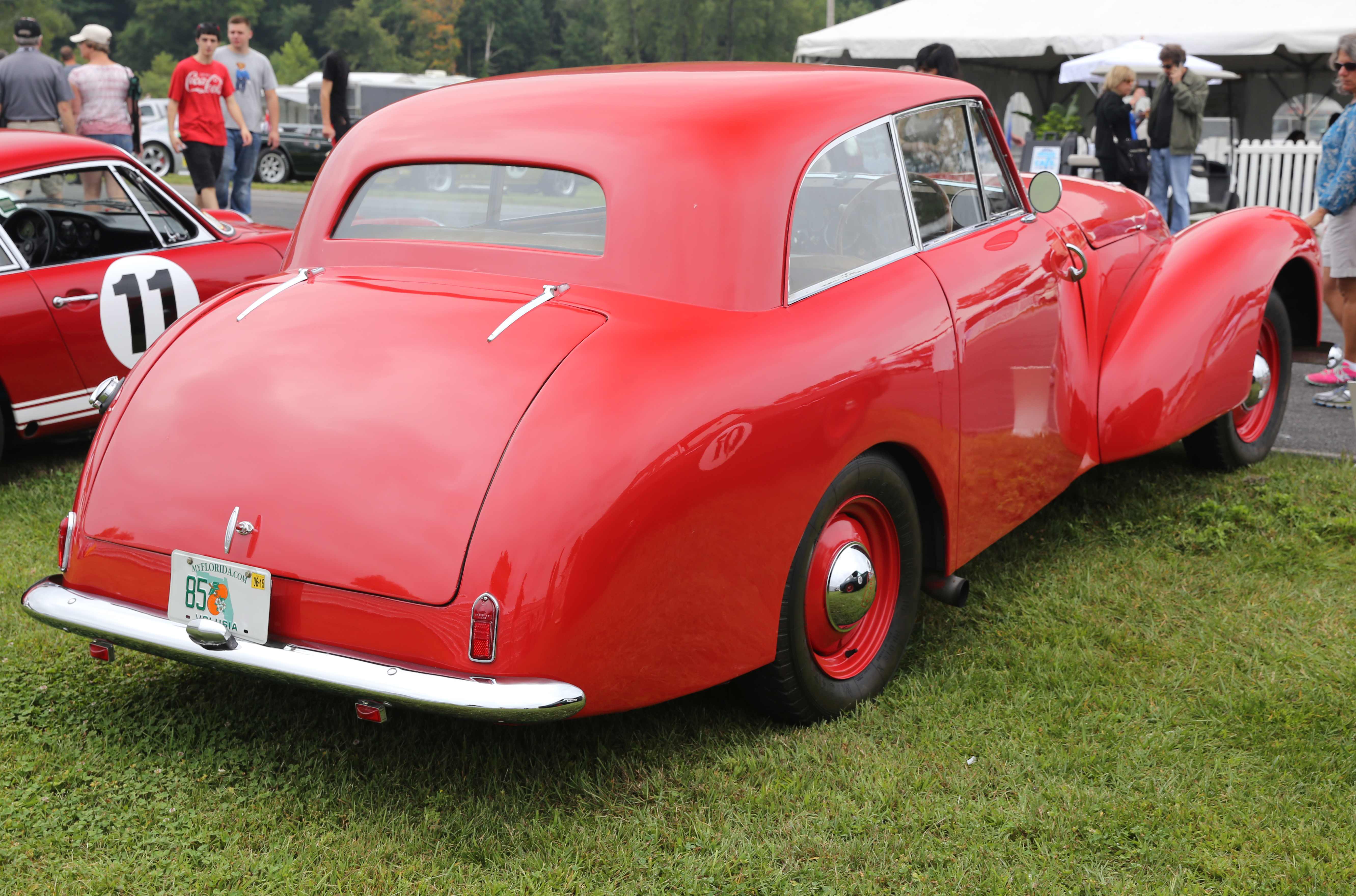 A 1951 Allard P1 Competition Series seen at the 2014 Lime Rock Concours d'Élegance. Belongs to the Taylor-Constantine Trust of Daytona Beach, Florida. This one has the 4.4 litre Mercury flathead V8 with an Edelbrock aluminium head, an Edmunds intake manifold adapted for twin Stromberg 97 carburetors, and a "beehive" oil cooler. With an ash frame and a hand-beaten aluminium body by Abbott's, it weighs in at 3024 lbs.